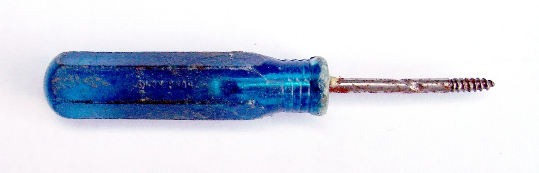 A small blue gimlet, about 9cm in length.